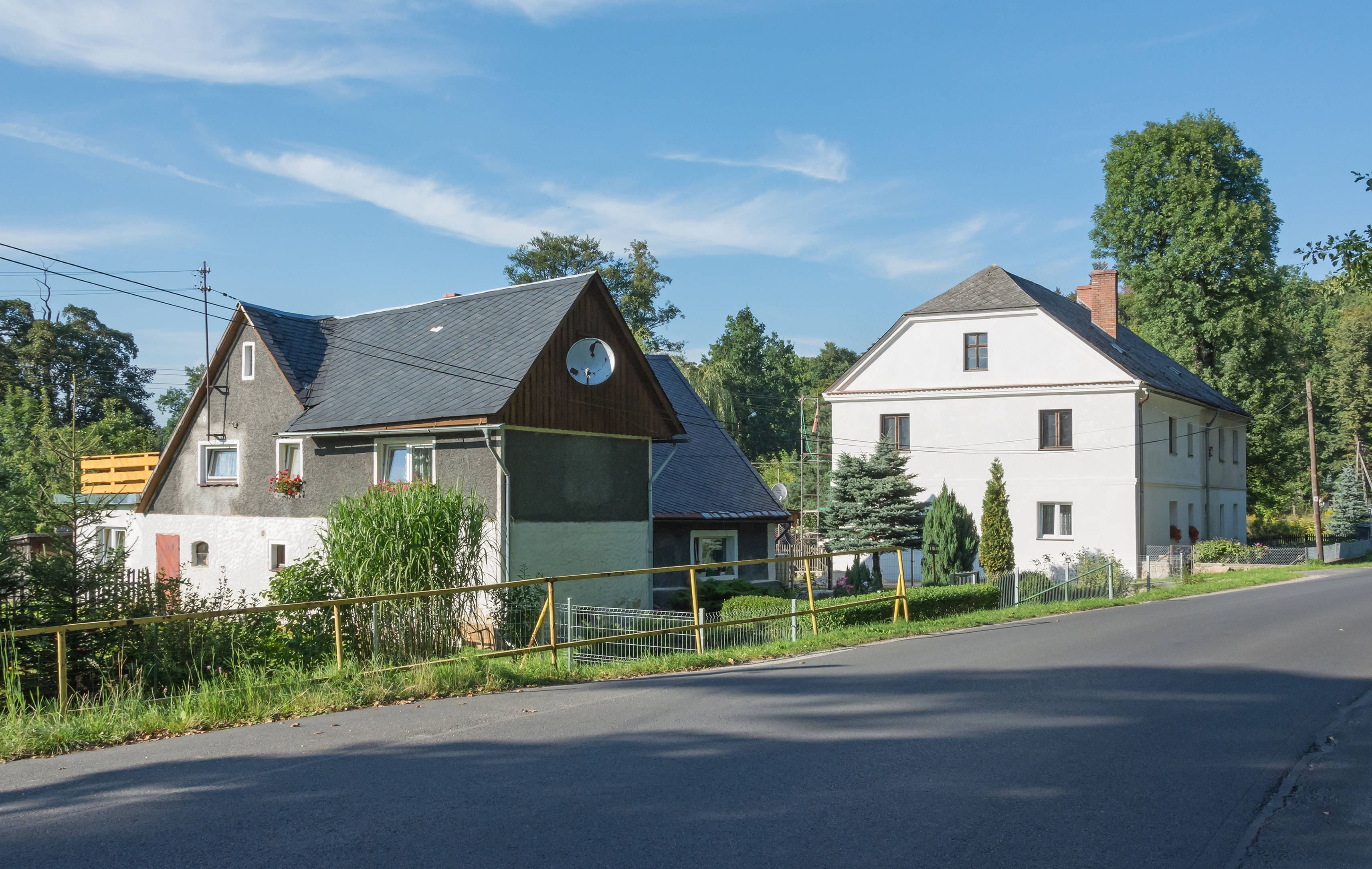 Watermill in Bukowiec